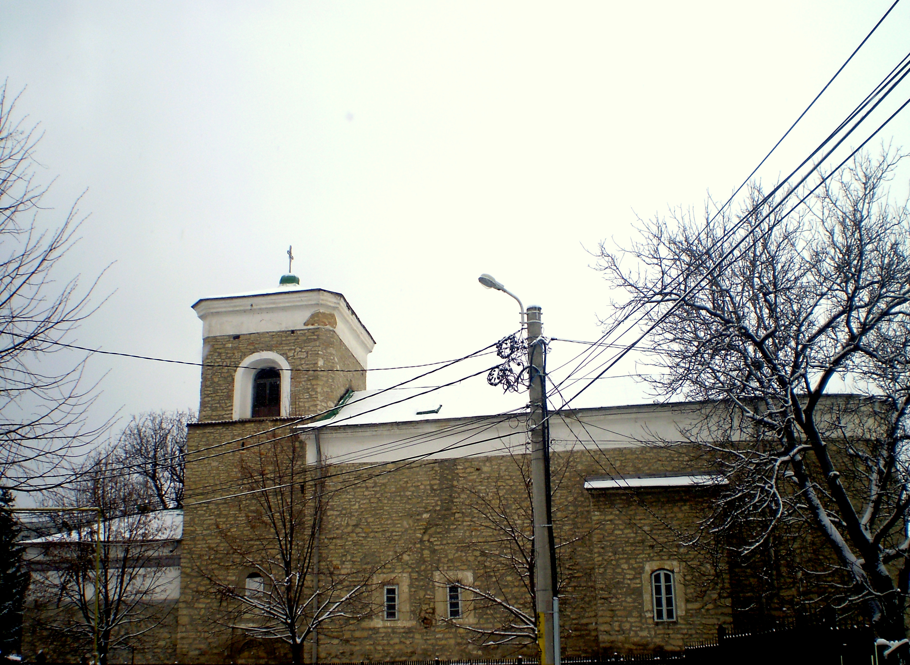 Iaşi , Zlataust Church , Iaşi , Romania